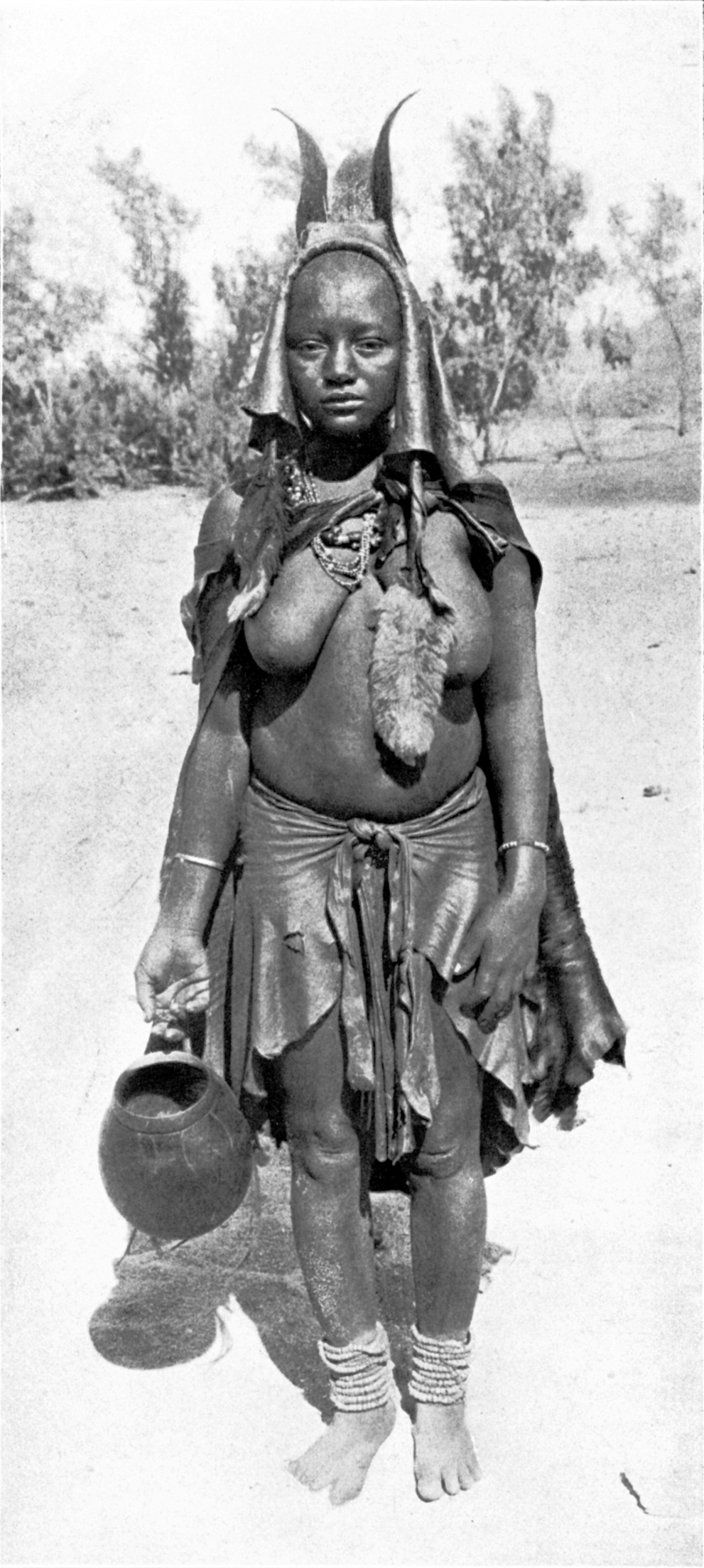 Herero madam.